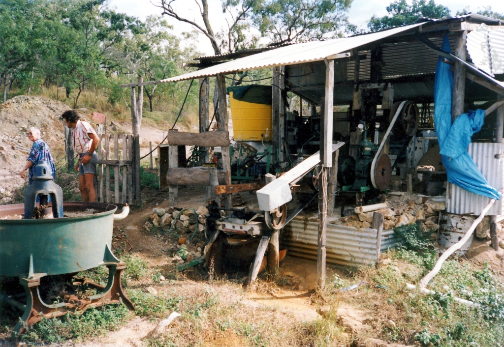 I took this photo on a trip through Coen, Queensland in 1990